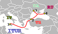 Route of the ITUR submarine communications cable. Fot more information on the numbered landing points, see main article.